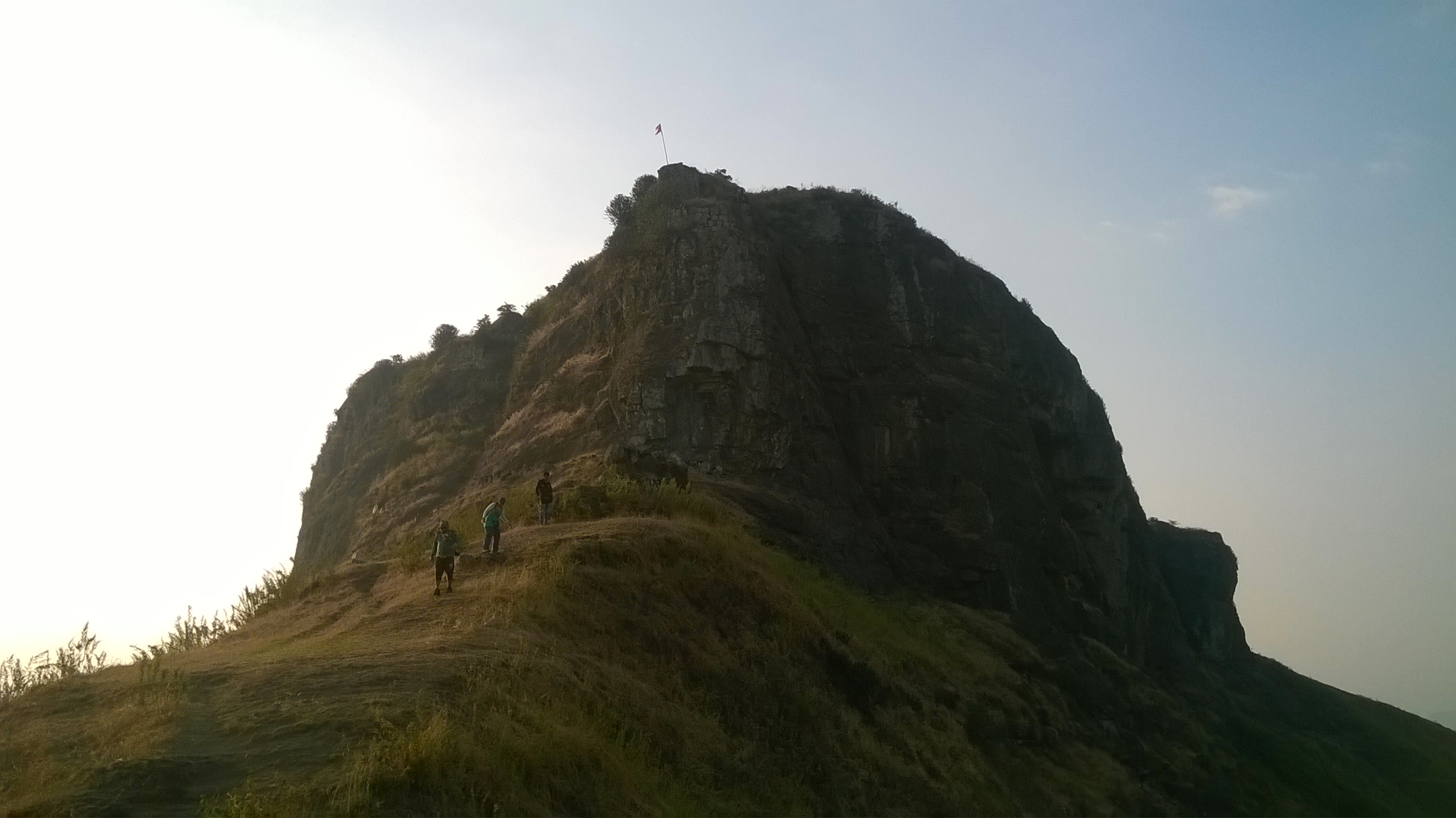 The water Tank on the fort